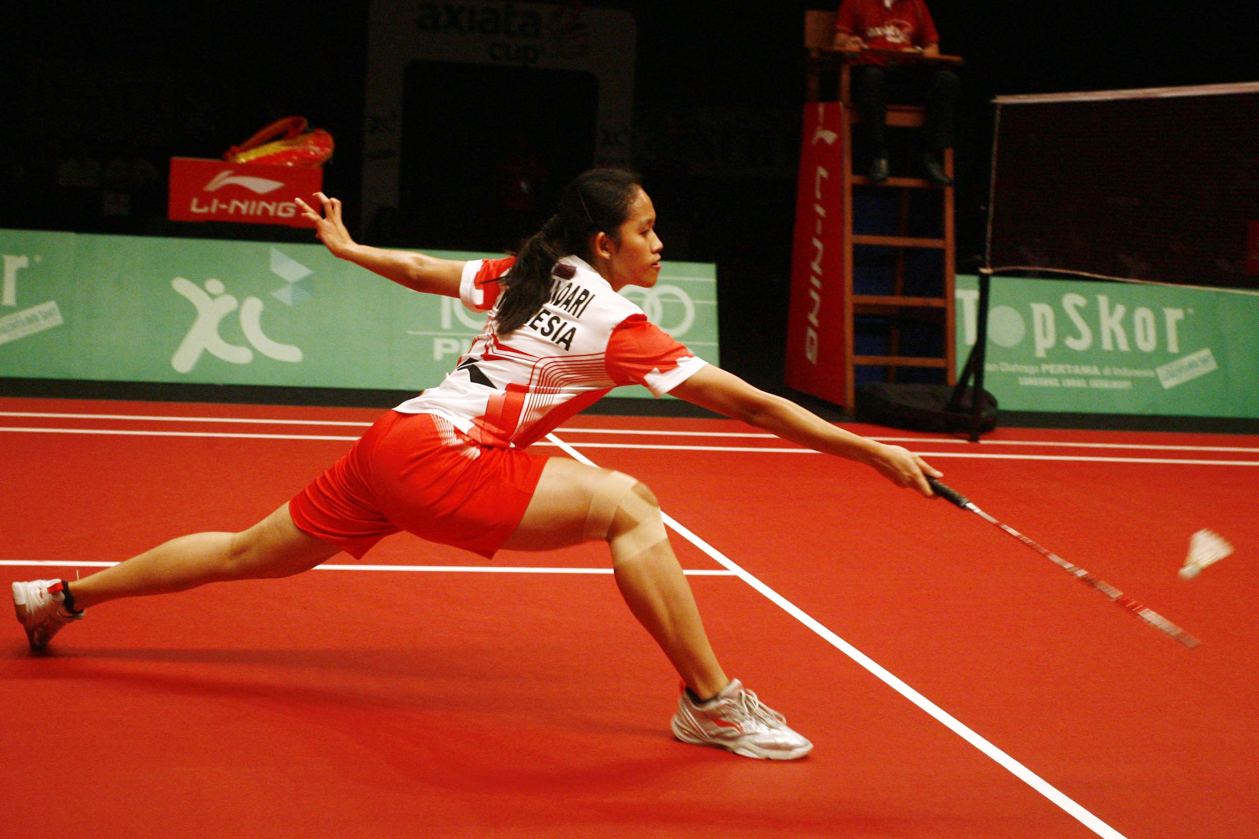 Aprilia yuswandari at 2013 Axiata Cup